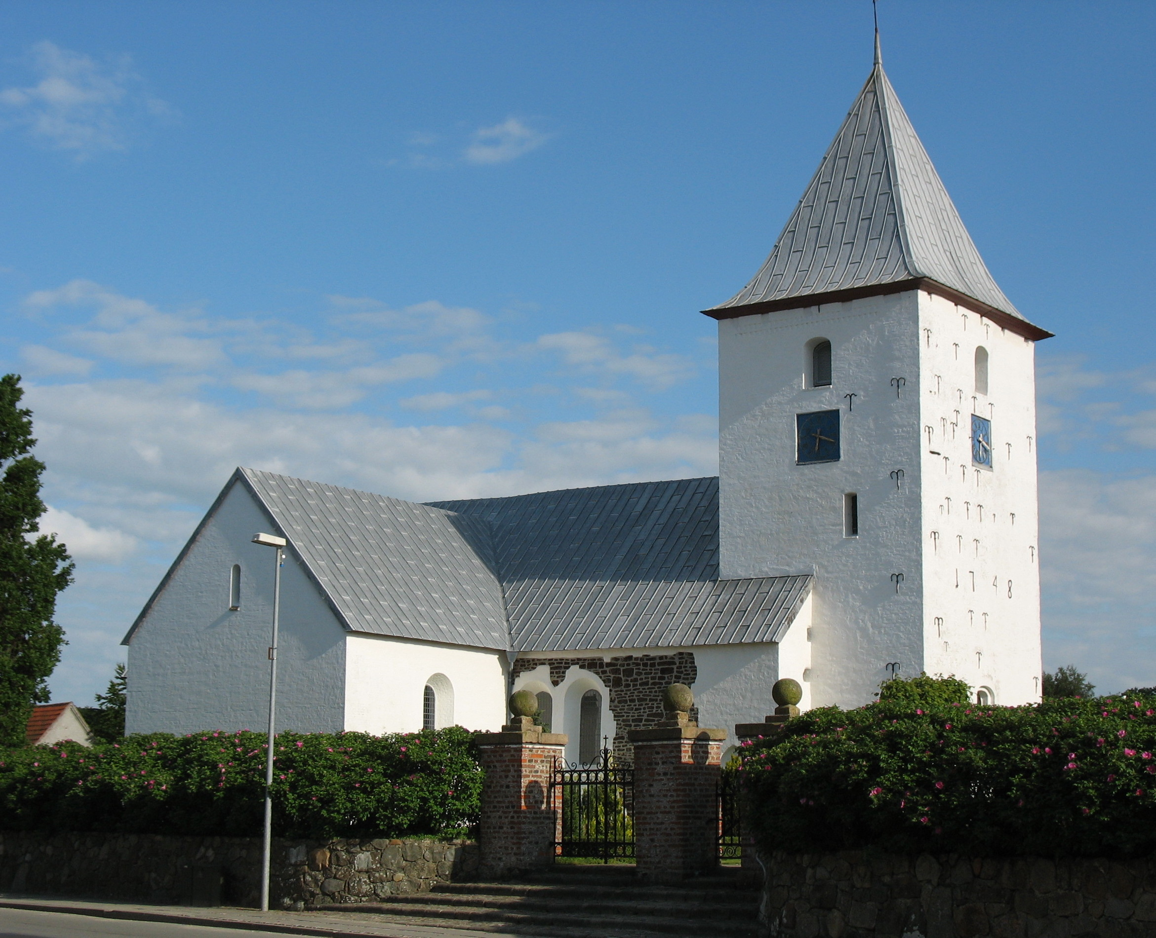 Ansager Church.